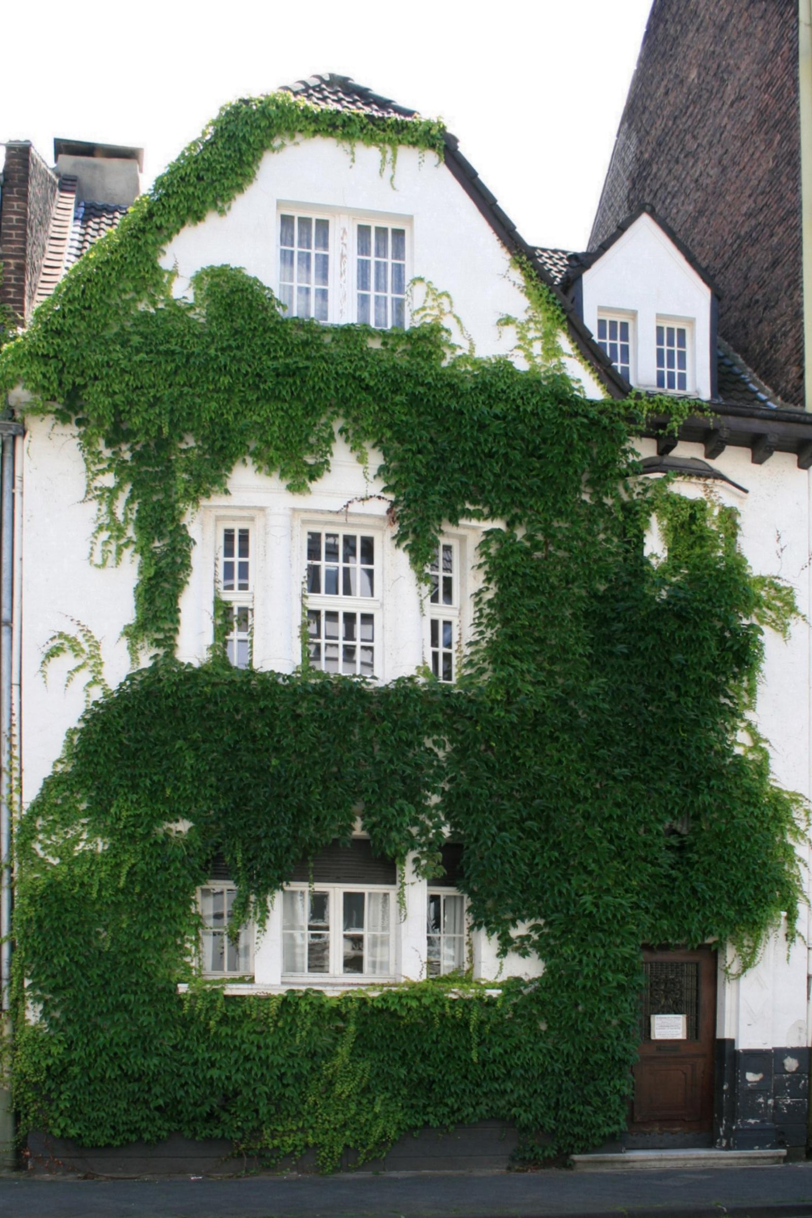 Cultural heritage monument No. G 041 in Mönchengladbach